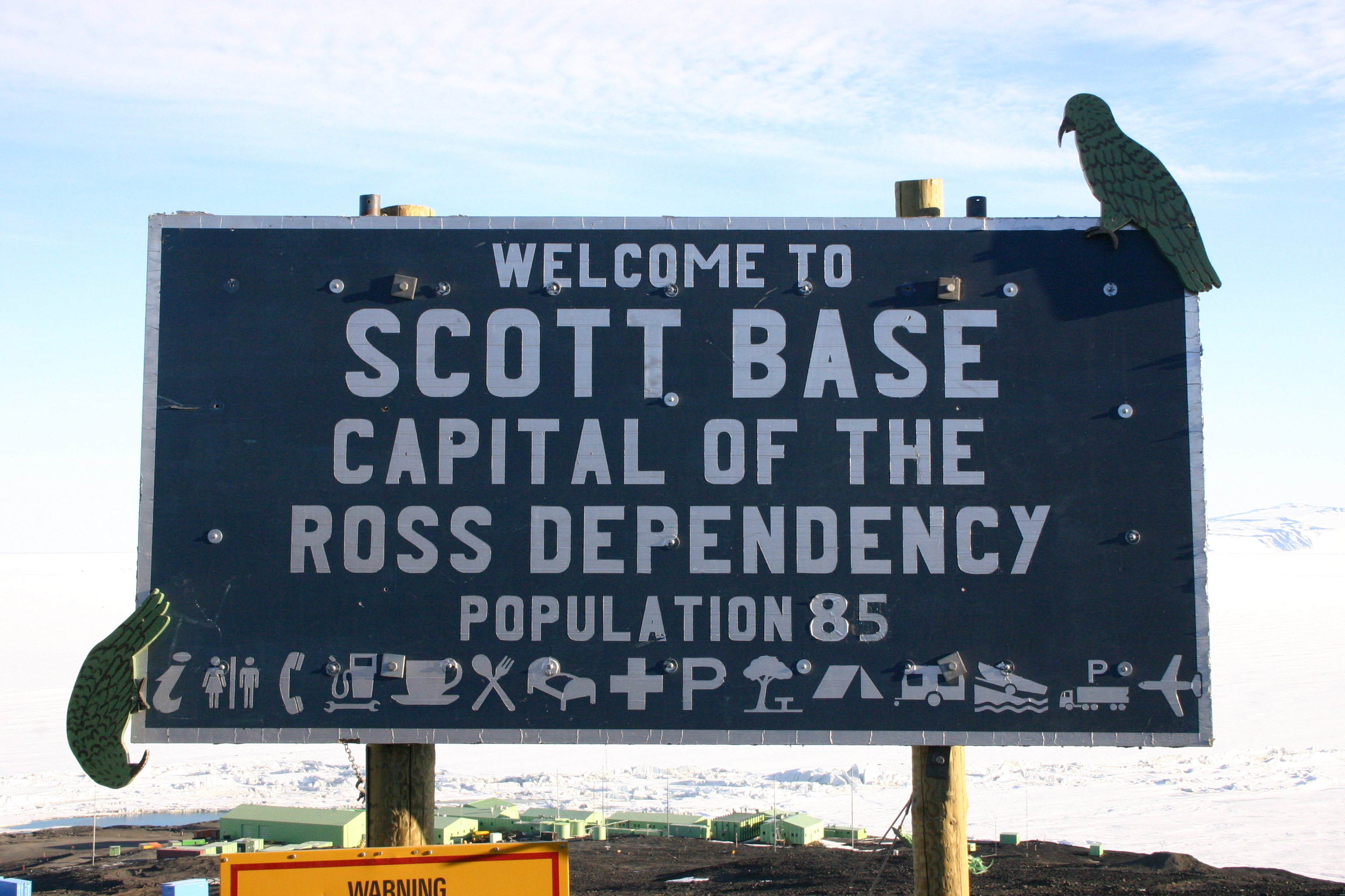 Scott Base sign. Carefully positioned along the road from the American, McMurdo Base, New Zealanders proclaiming dominion over the Ross Dependency